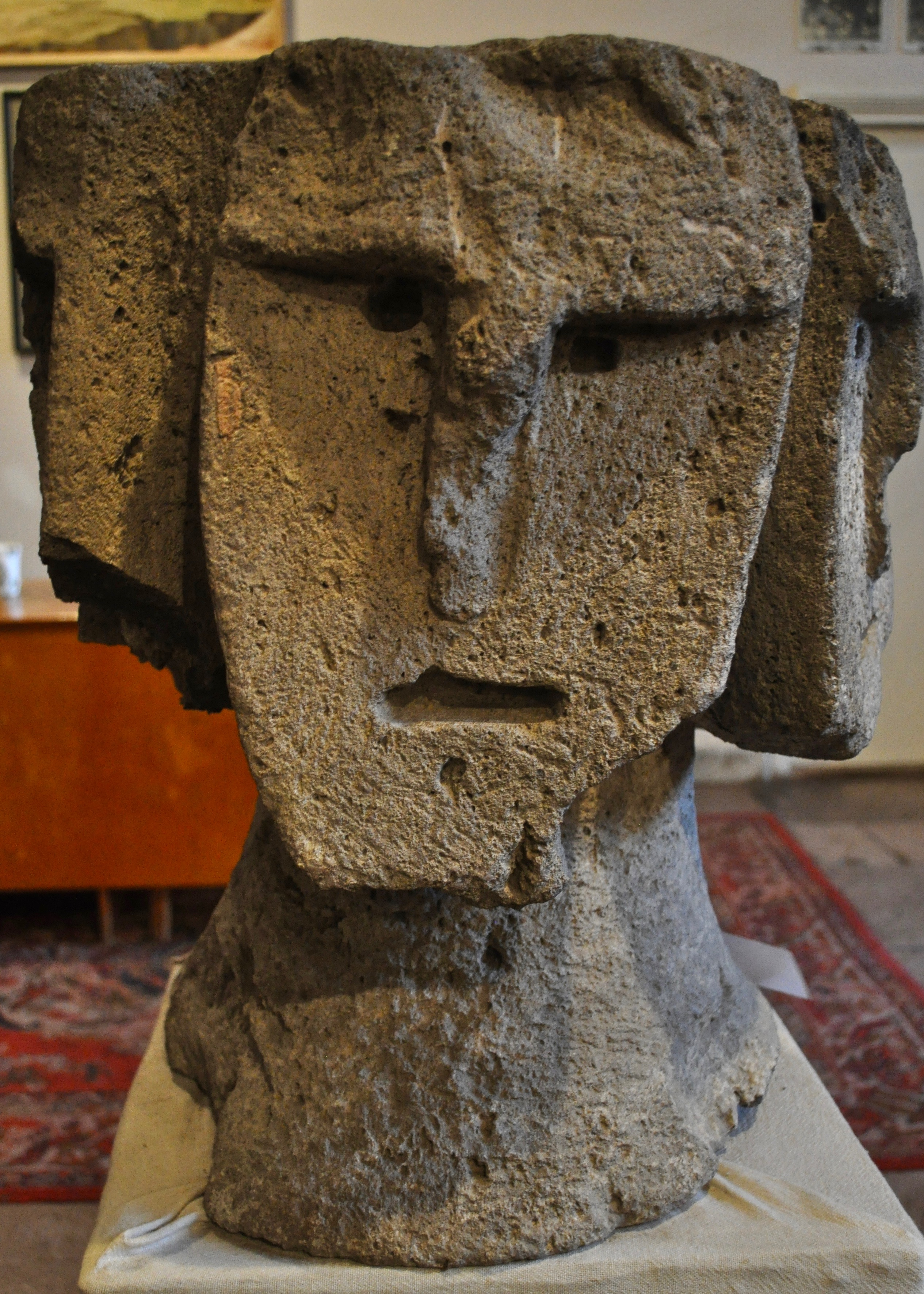 Five-faced idol exhibited at the Local Lore Museum of Goris.